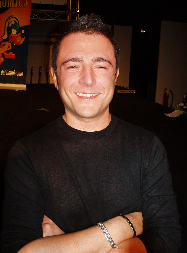 Picture of the italian dubber Patrizio Prata taken at Rome's comics fair Romics 2010.